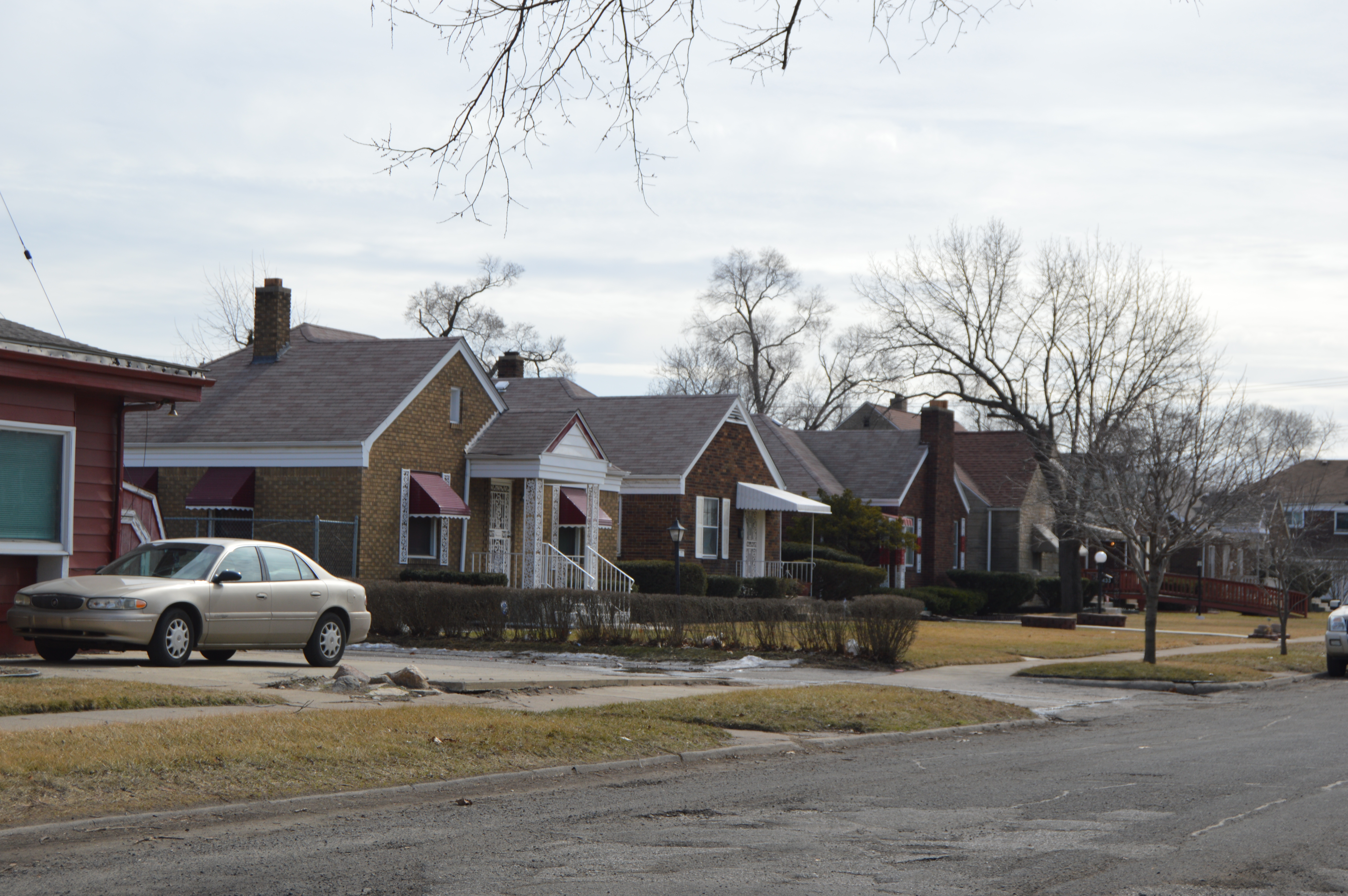 Houses on the western side of Ellsworth Street south of Fourth Avenue in Gary, Indiana, United States. This block is part of the Combs Addition Historic District, a historic district that is listed on the National Register of Historic Places.